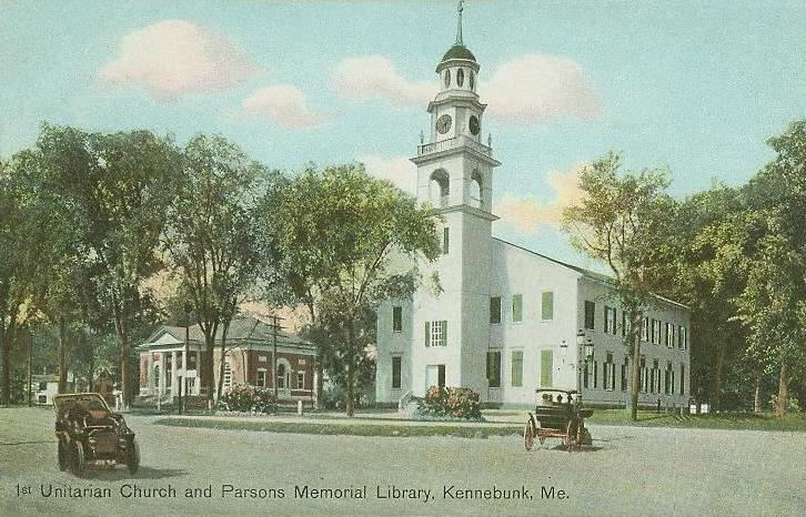 First Parish Church and Kennebunk Free Library, Kennebunk, Maine. The church was built in 1773, and the library in 1907.